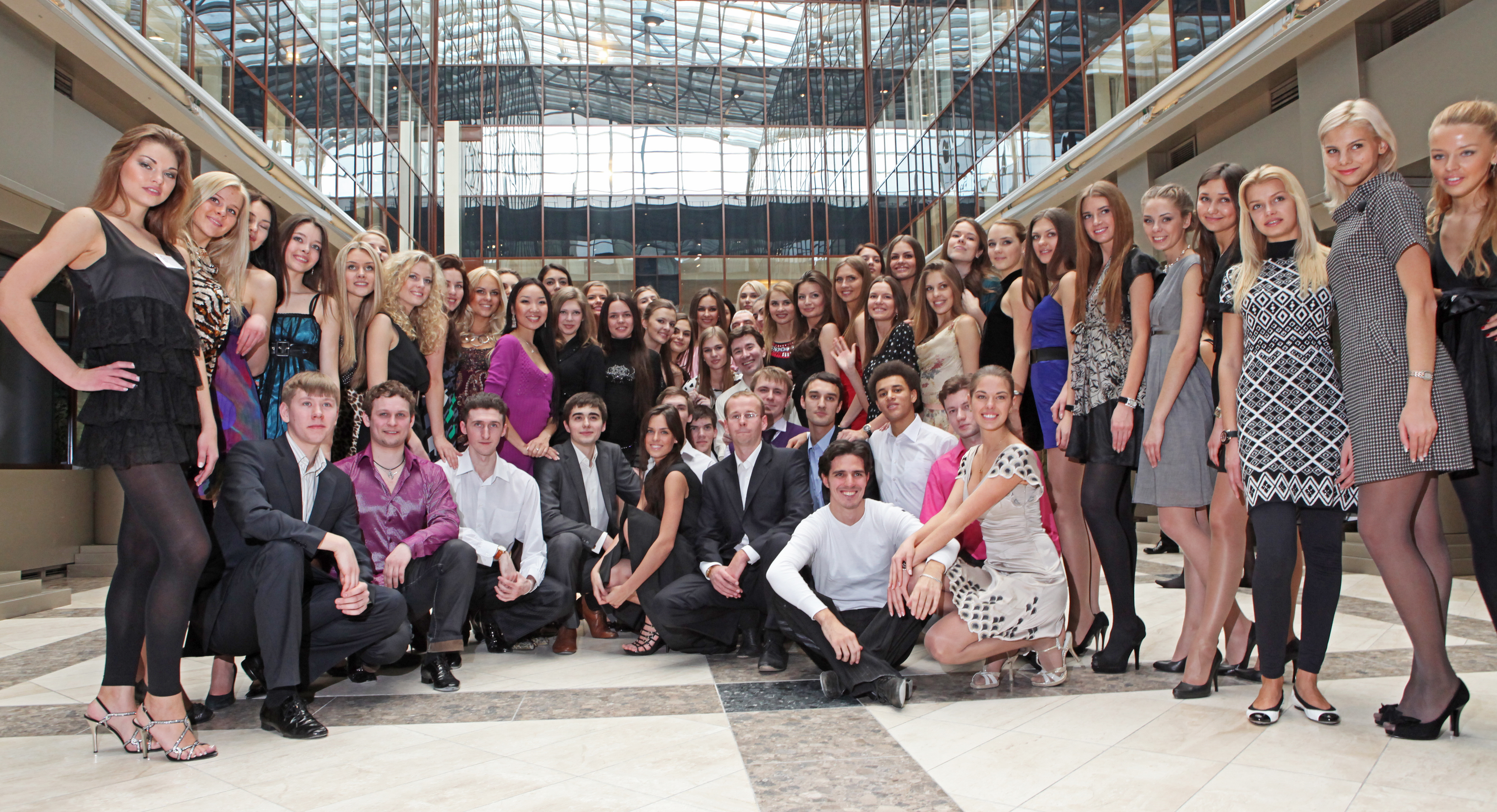 Finalist Miss Russia 2010, a rehearsal of the Eighth Viennese Ball in Moscow.